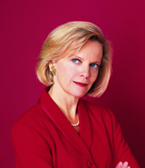 Property of Professor Lori Andrews, Chicago-Kent College of Law